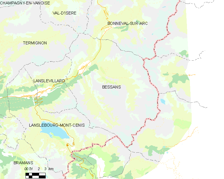 Map of French municipality